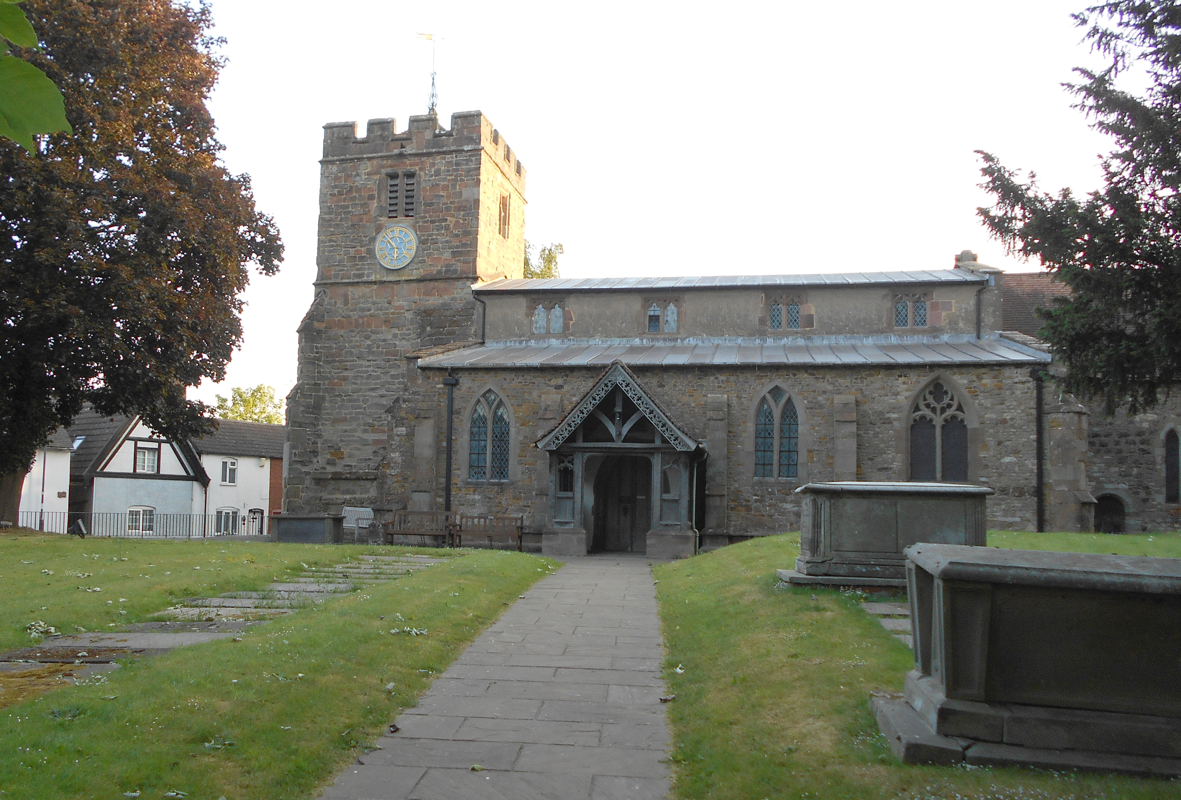 St Mary's Church, Clifton-upon-Dunsmore